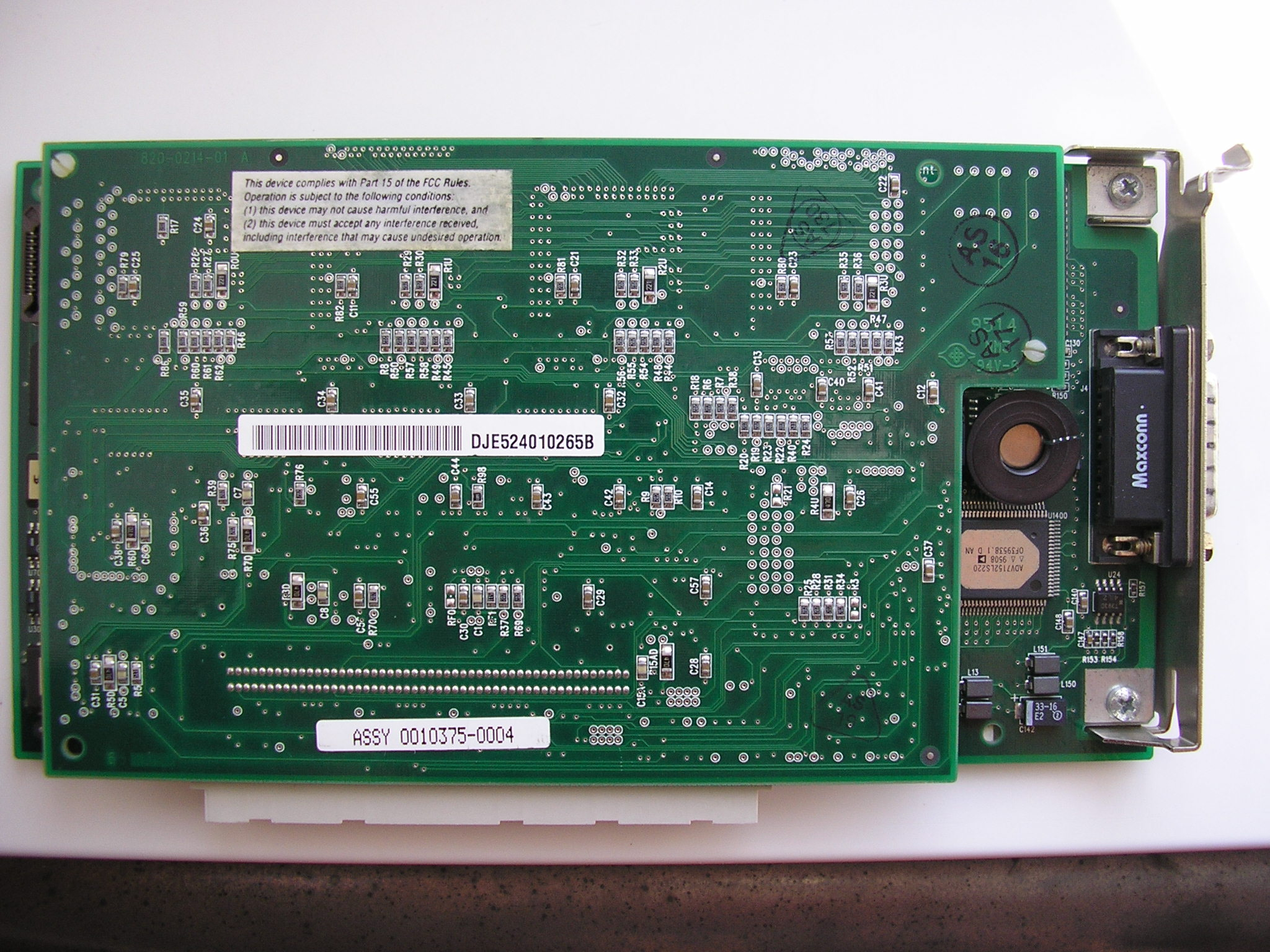 Radius Thunder IV GX 1600 (front), NuBus video card for Macintosh 1994